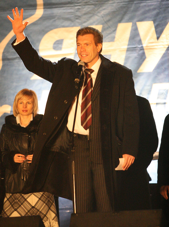 Oleh Tsarev, People's Deputy of Ukraine (the Party of Regions) speaking at the Yanukovic for President rally in Dnipropetrovsk, Karla Marksa Prospect.